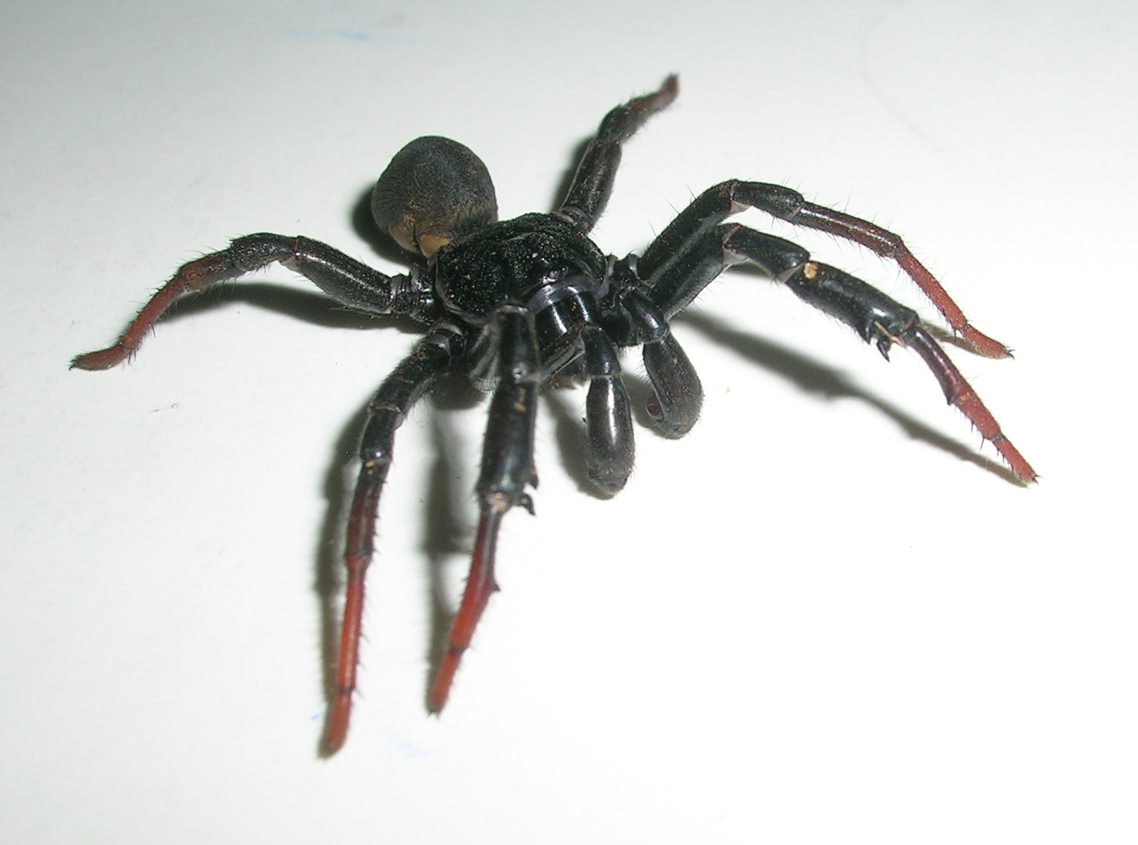 Idiops constructor (male) Idiopidae from Bannerghatta, Bangalore Determination courtesy Manju Siliwal manjusiliwal at